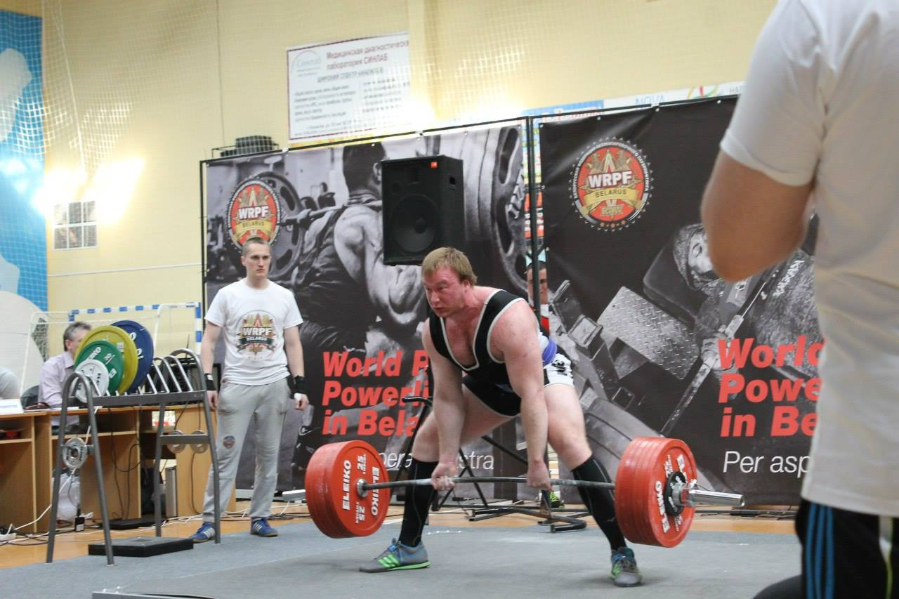 Powerlifter with Down Syndrome